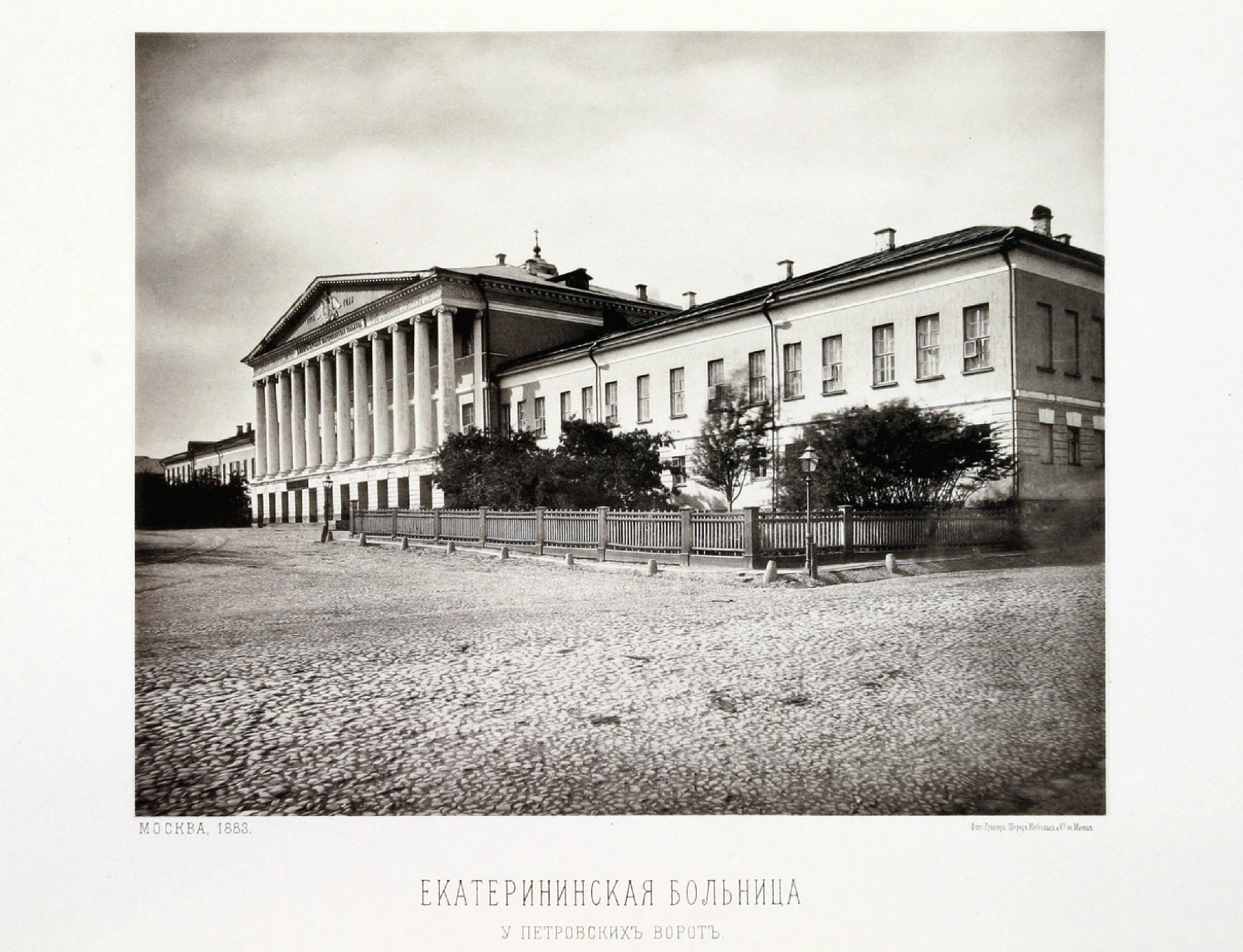 Plate 68: Catherine's Hospital near Petrovsky Gates Square.